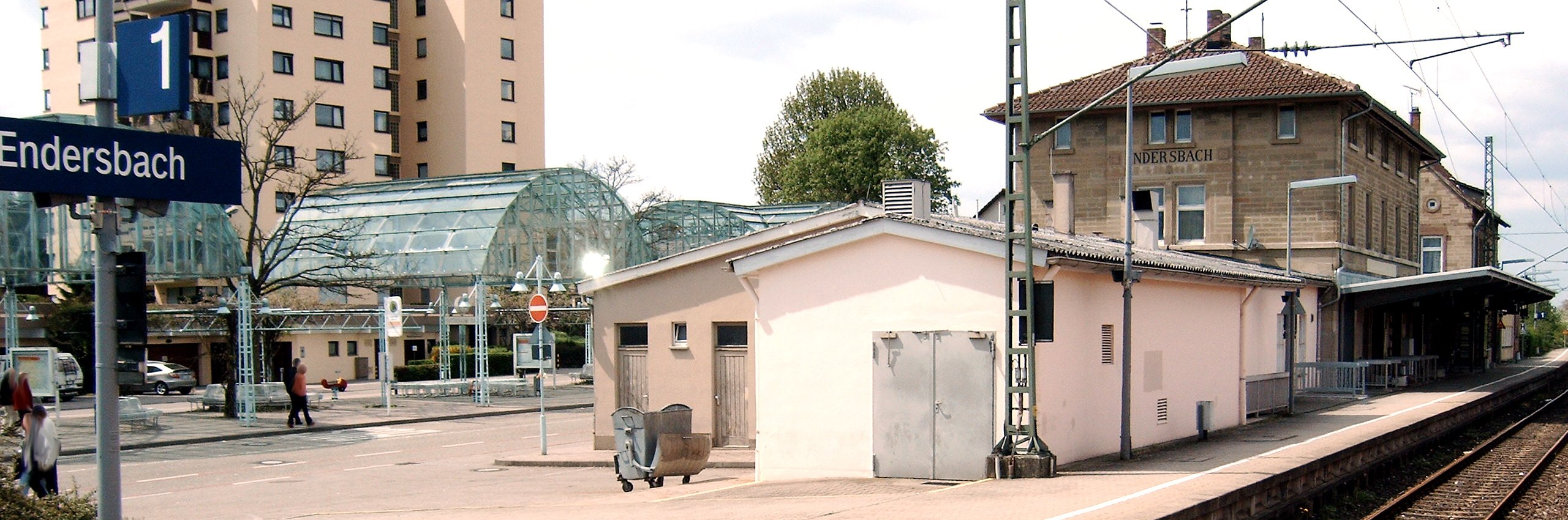 Endersbach train and bus station, Weinstadt, Germany. Possibly recognizable persons blurred due to privacy laws.